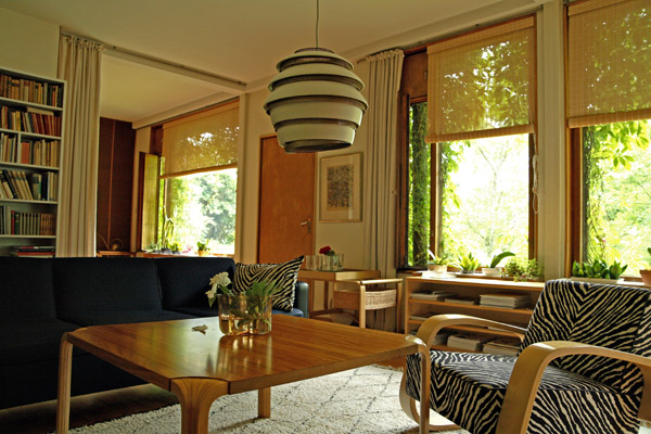 Aalto House, Helsinki.